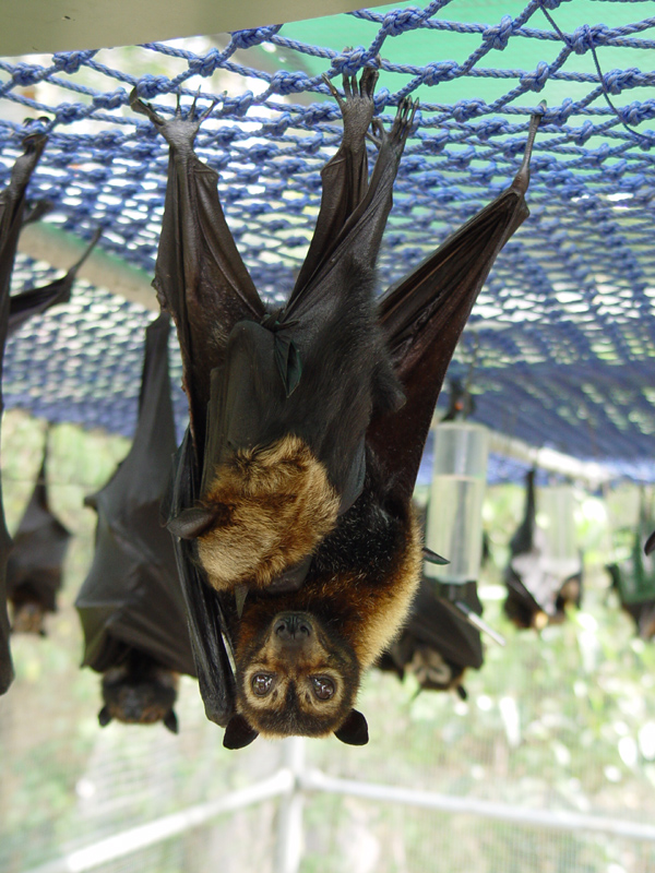 Spectacled flying-fox (Pteropus conspicillatus), mother with baby